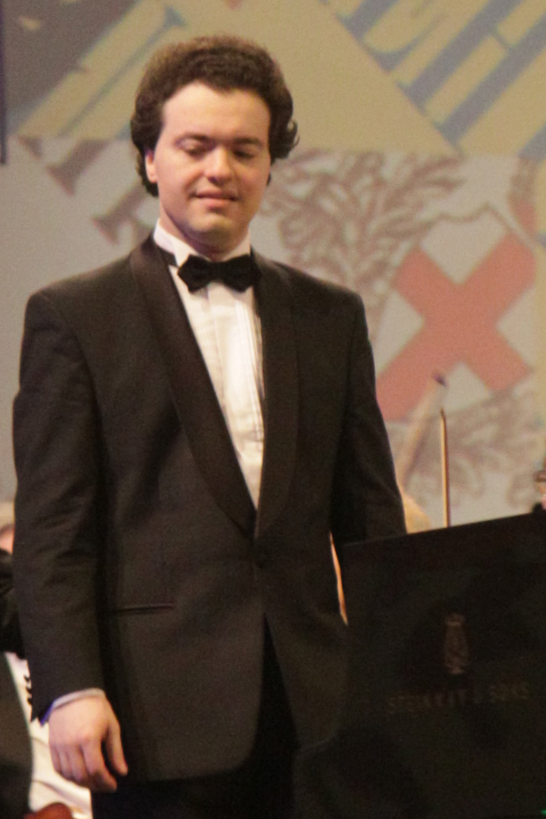 Evgeny Kissin. Concert with Israel Philharmonic Orchestra. Tel Aviv, 24-12-2011